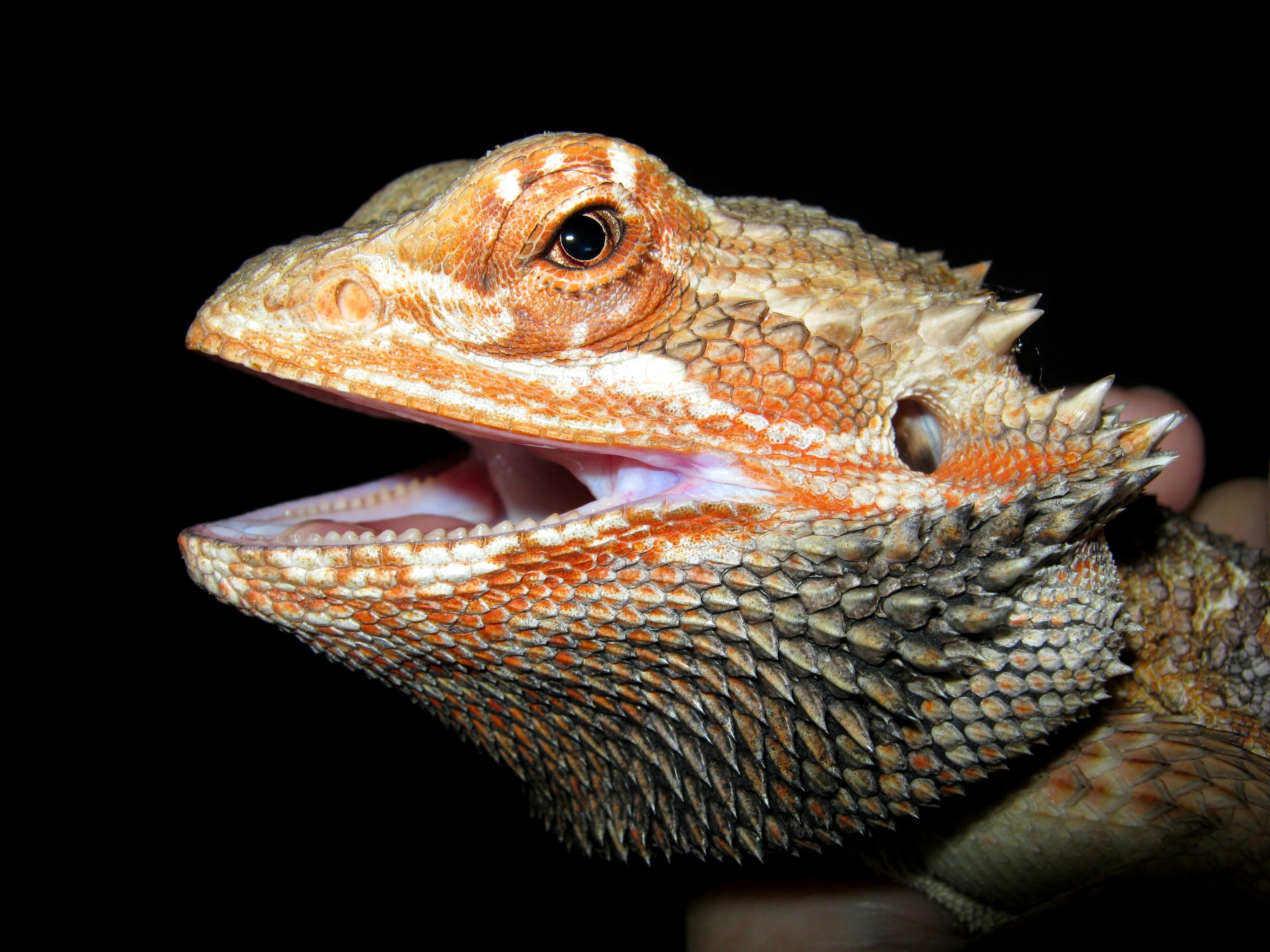 Head of a Bearded Dragon, orange form.